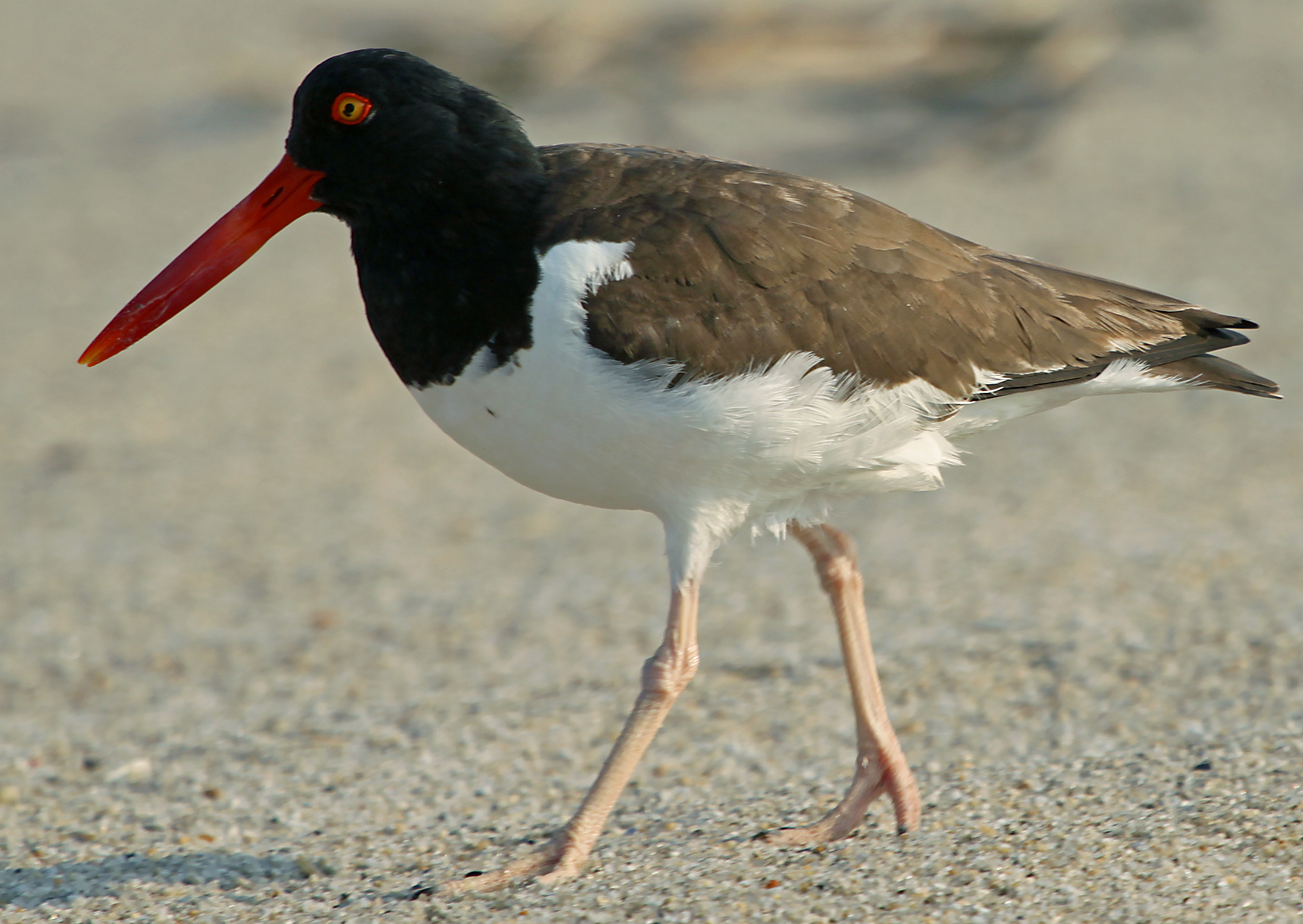 An American Oystercatcher on the Atlantic coast, New Jersey, USA.